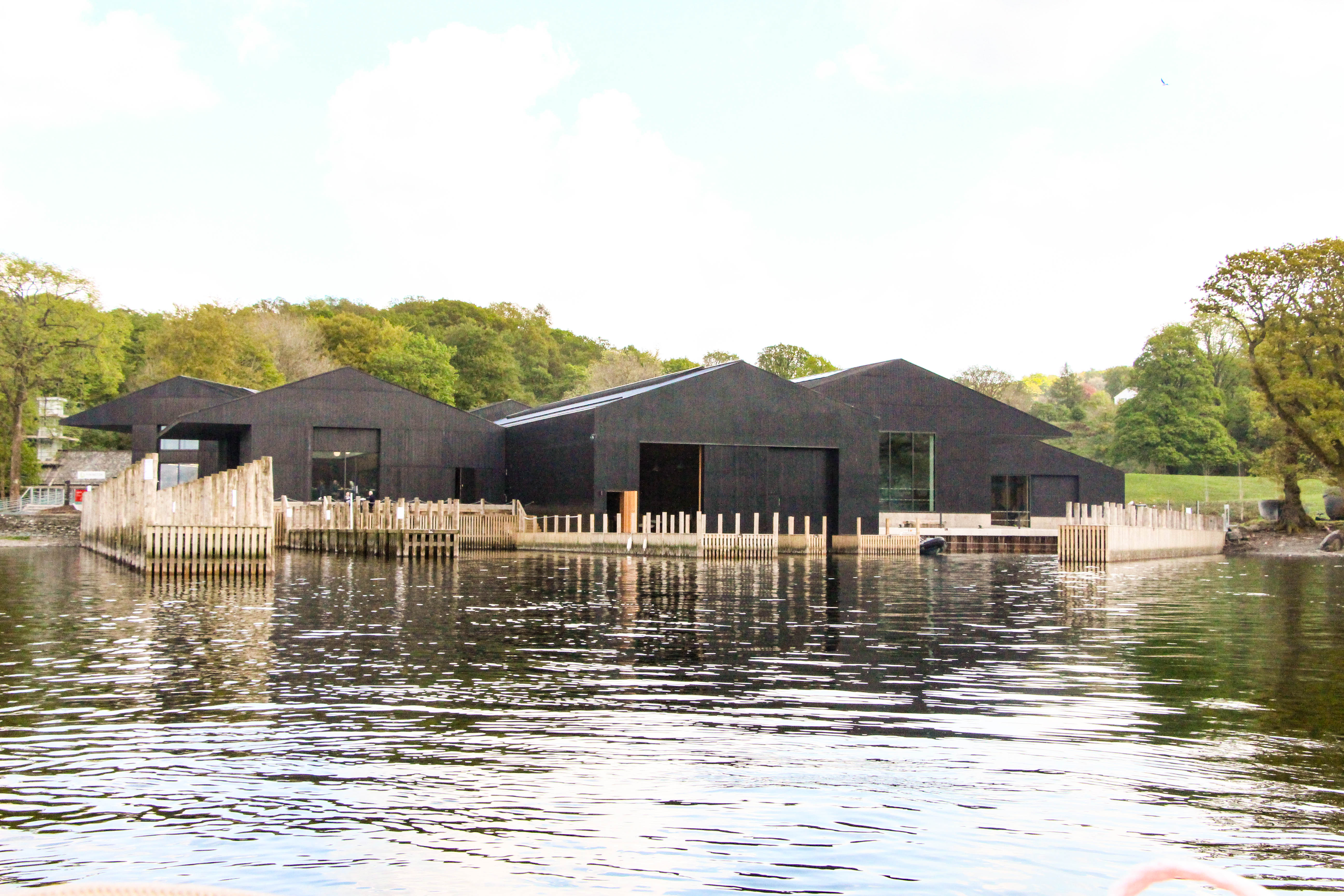 Windermere Jetty Museum. Image taken from the water.